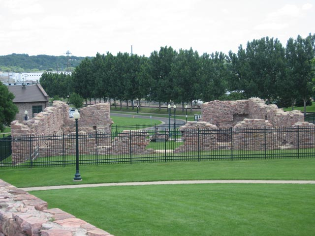 Ruins of the Queen Bee Mill in Falls Park in Sioux Falls, South Dakota, USA. The building was originally constructed in the late 19th century and was only operational for a few years. A fire gutted most of the building in the 1950's, and the top five or six stories were knocked down due to stability issues.